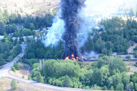 Federal, state and local agencies respond to the scene of a train derailment near Mosier, Ore., on the Columbia River, June 3, 2016.